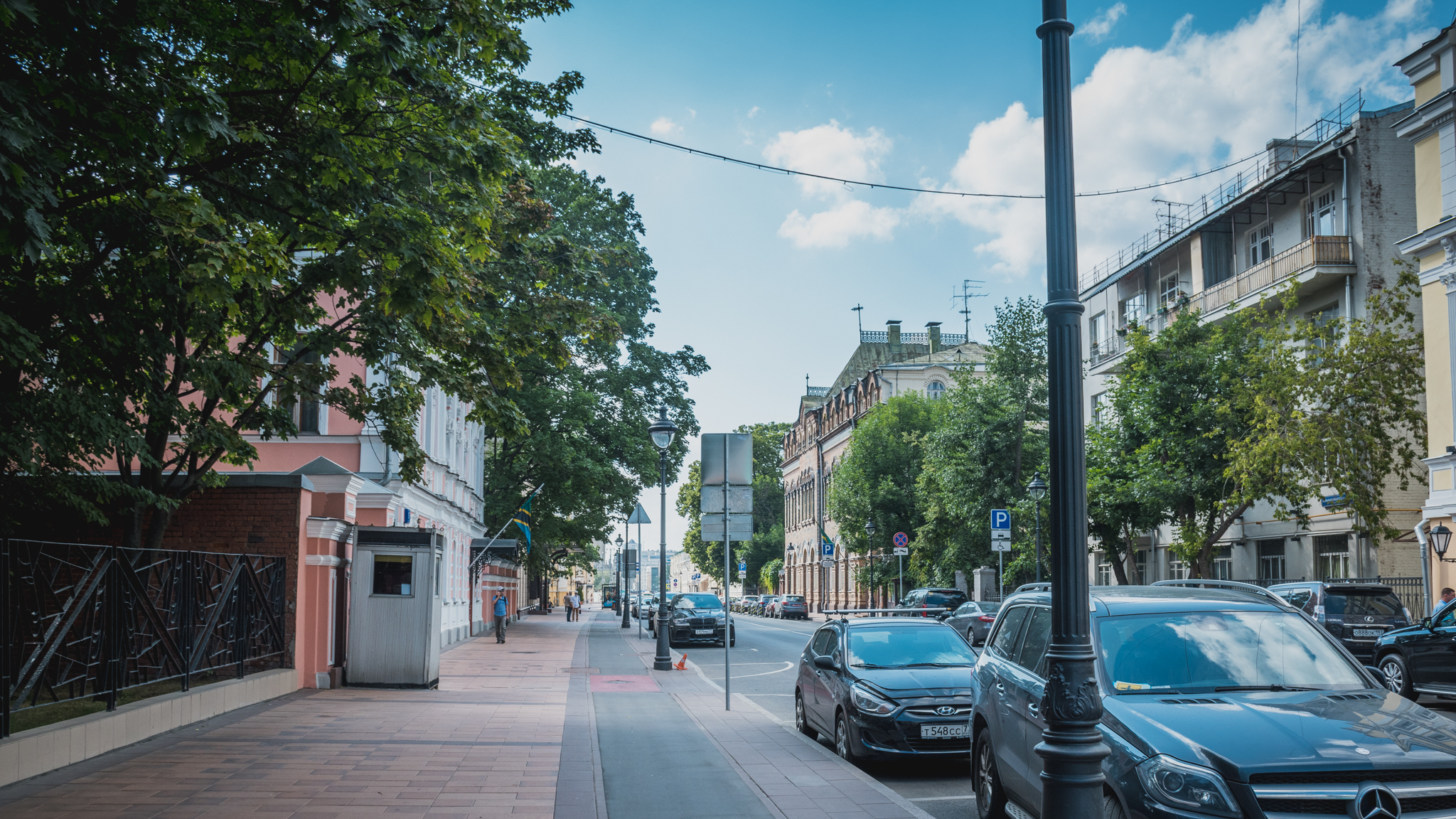 Bolshaya Nikitskaya Street in Moscow, Russia. View to the west. Left: Embassy of Tanzania. Right, ahead (fancy green roof): Embassy of Brazil.